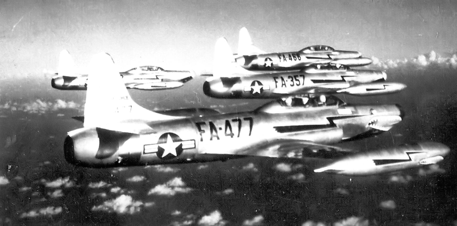 4th Fighter-Interceptor Squadron Lockheed F-94B 4 plane formation